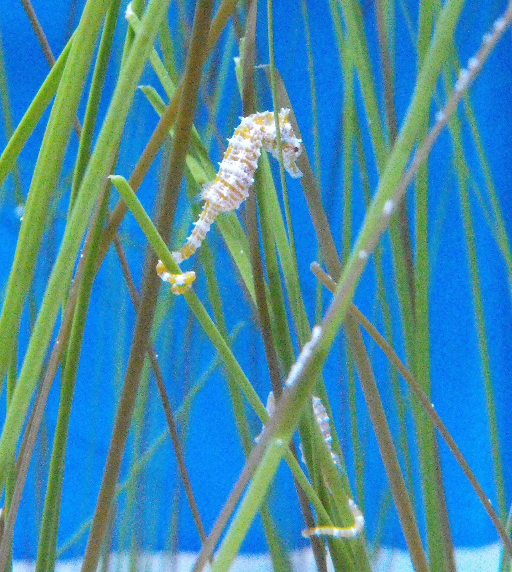 Hippocampus zosterae at the Birch Aquarium, San Diego, California, USA.